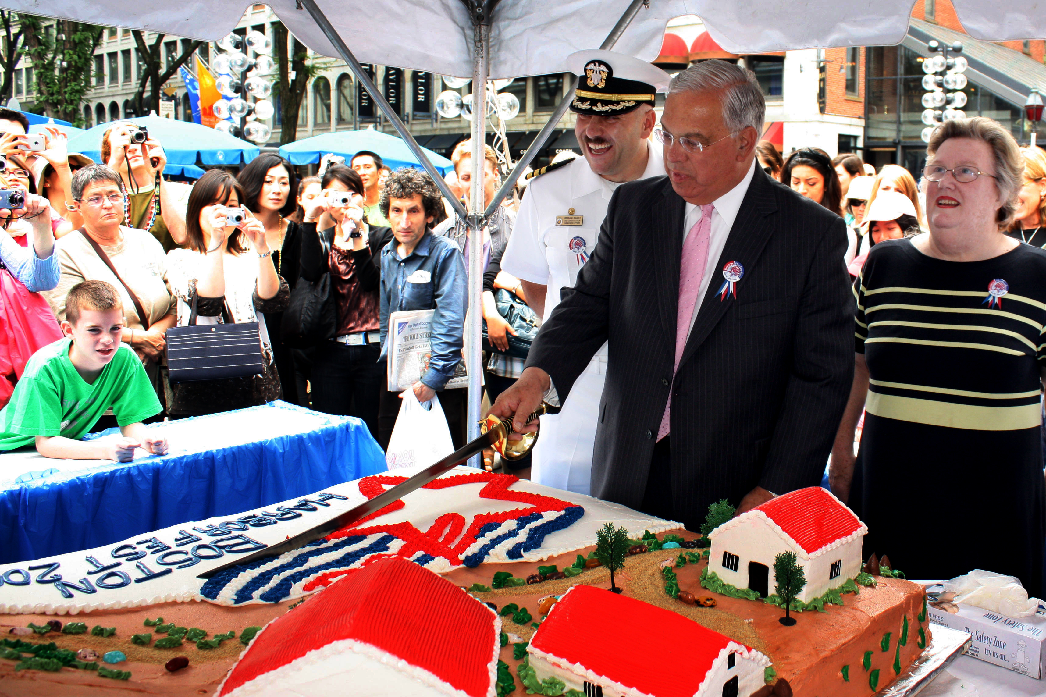 BOSTON, Mass. (June 30, 2009) Cmdr. William Bullard, left, commanding officer of the USS Constitution; Boston Mayor Thomas Menino; and Susan Park, Director of Boston Harborfest, cut the cake during the opening ceremony of Boston Harborfest 2009 and Boston Navy Week at historic Faneuil Hall. Navy Weeks are designed to show Americans the investment they have made in their Navy and increase awareness in cities that do not have a significant Navy presence. (U.S. Navy photo by Chief Mass Communication Specialist Dave Kaylor/Released)